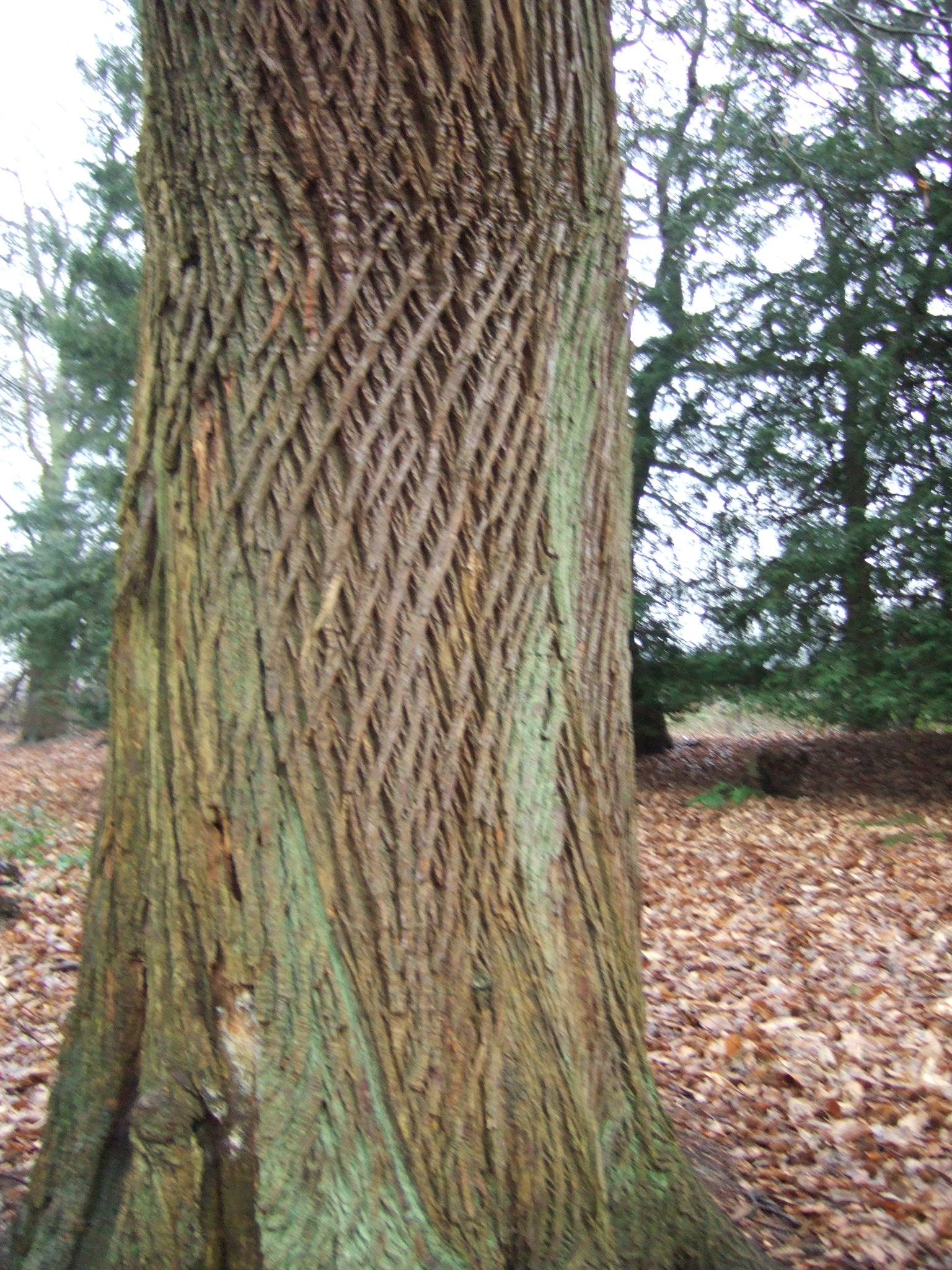 Retiform bark of a sweet chestnut